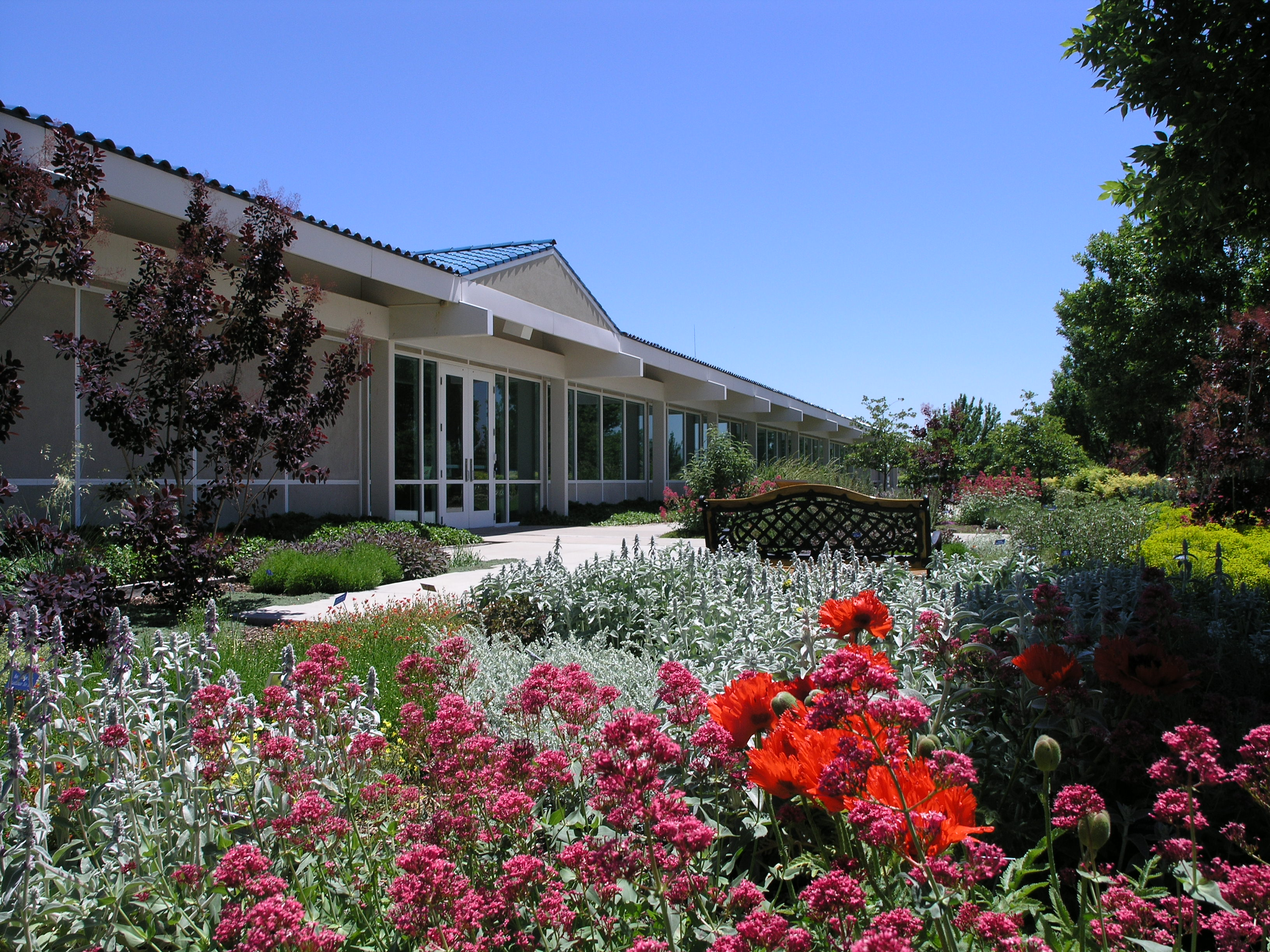 Entrance to Jordan Valley Water Conservancy District Administration Building.